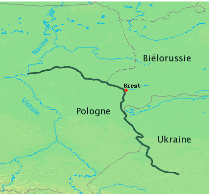 Map of the Western Bug in French. PD map taken from Image:Upe RBuga.png and modified by me.